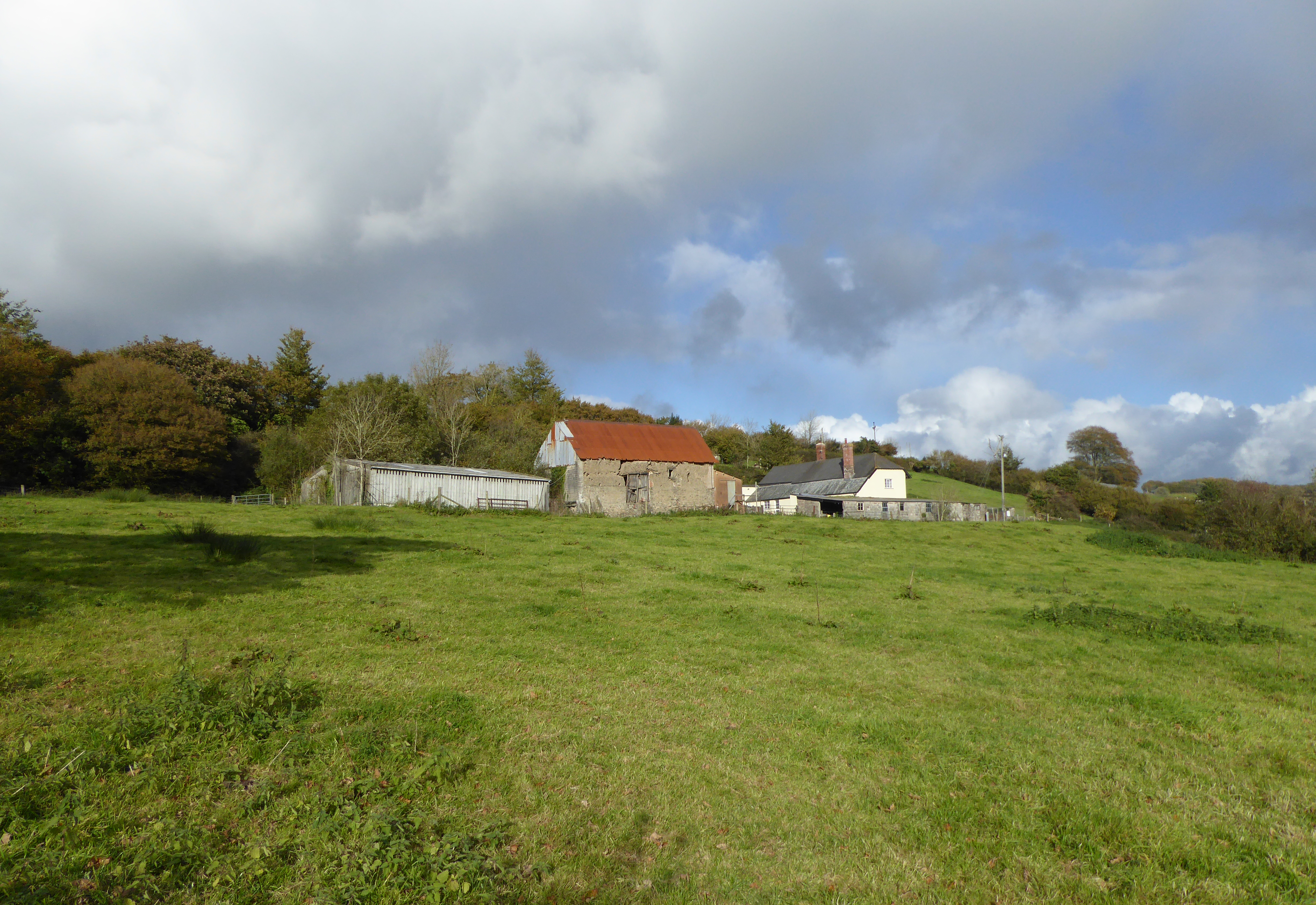 Tower Farm in the parish of Swimbridge, Devon, viewed from south-west. It is believed to occupy the site of Ernsborough, an historic mansion house, of which only a tower was remaining in 1773 (according to Lysons, Daniel & Lysons, Samuel, Magna Britannia, Vol.6, Devonshire, London, 1822) hence the name of the present farm.